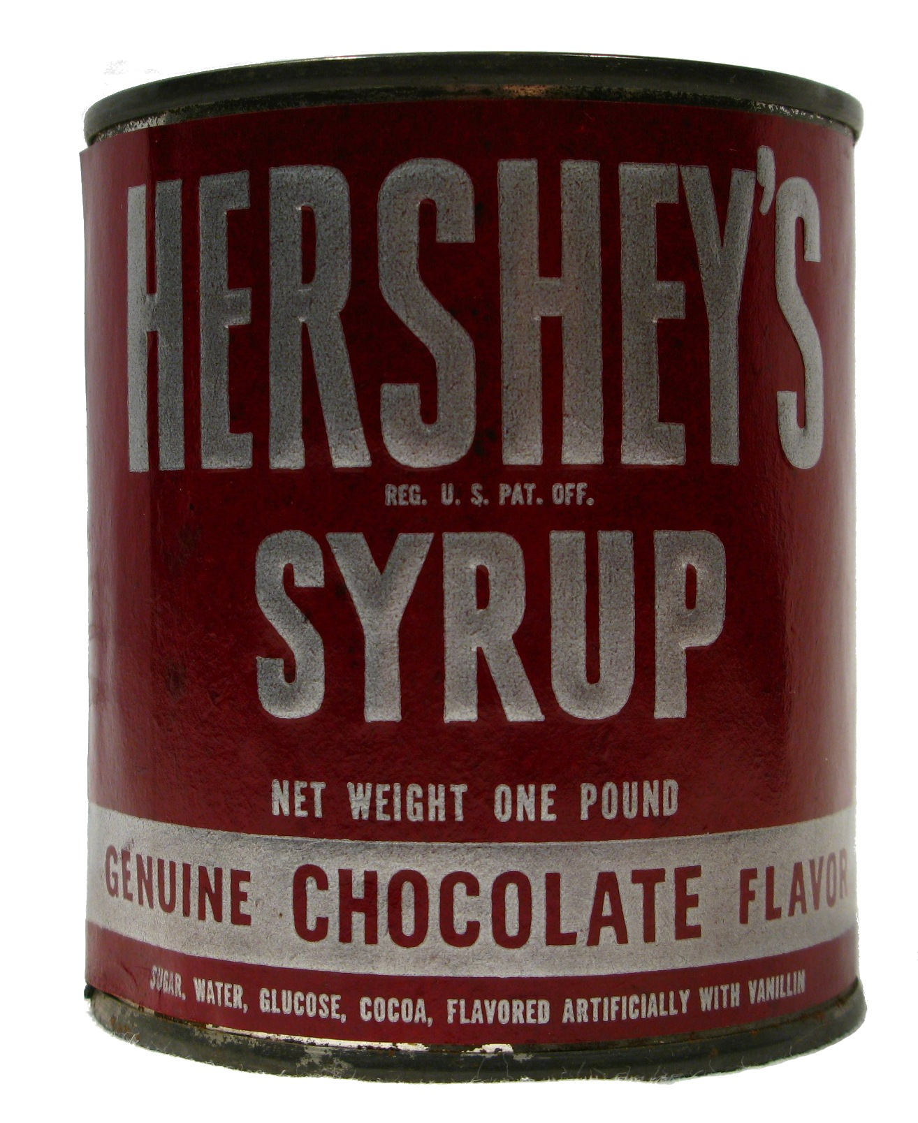 Hershey's Syrup 1950s. Height: 9,2 cm / Diameter: 8 cm. Tin stamping: 3T57, manufactured by Hershey Chocolate Corporation, Hershey, PA., USA. The can was part of US-Help for Europe (Marshall Plan / European Recovery Program), in this particular case for Vienna / Austria / EU after World War II and is not opend down to the present day. Inscription: HERSHEY’S / Reg. U. S. PAT. OFF. / SYRUP / Net weight one pound / Genuine Chocolate Flavor / Sugar, Water, Glucose, Cocoa, Flavored artificially with vanillin.